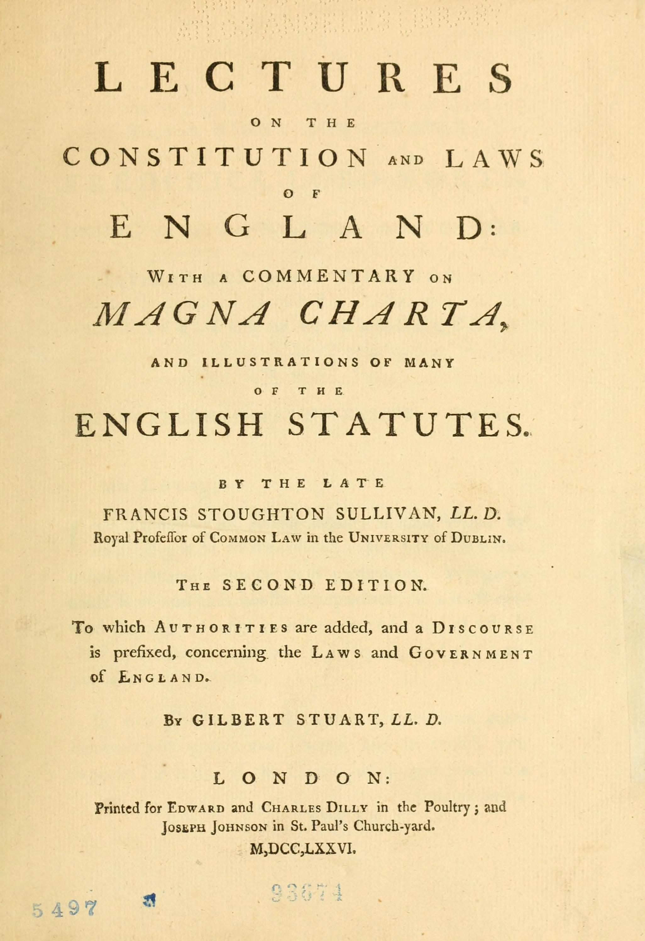 Title page of Francis Stoughton Sullivan (1776) Lectures on the Constitution and Laws of England: With a Commentary on Magna Charta, and Illustrations of Many of the English Statutes. By the Late Francis Stoughton Sullivan, LL.D. Royal Professor of Common Law in the University of Dublin. The Second Edition. To which Authorities are Added, and a Discourse is Prefixed, Concerning the Laws and Government of England. By Gilbert Stuart, LL.D. (2nd ed.), London: Printed for Edward and Charles Dilly in the Poultry; and Joseph Johnson in St. Paul's Church-yard OCLC: 173651650.